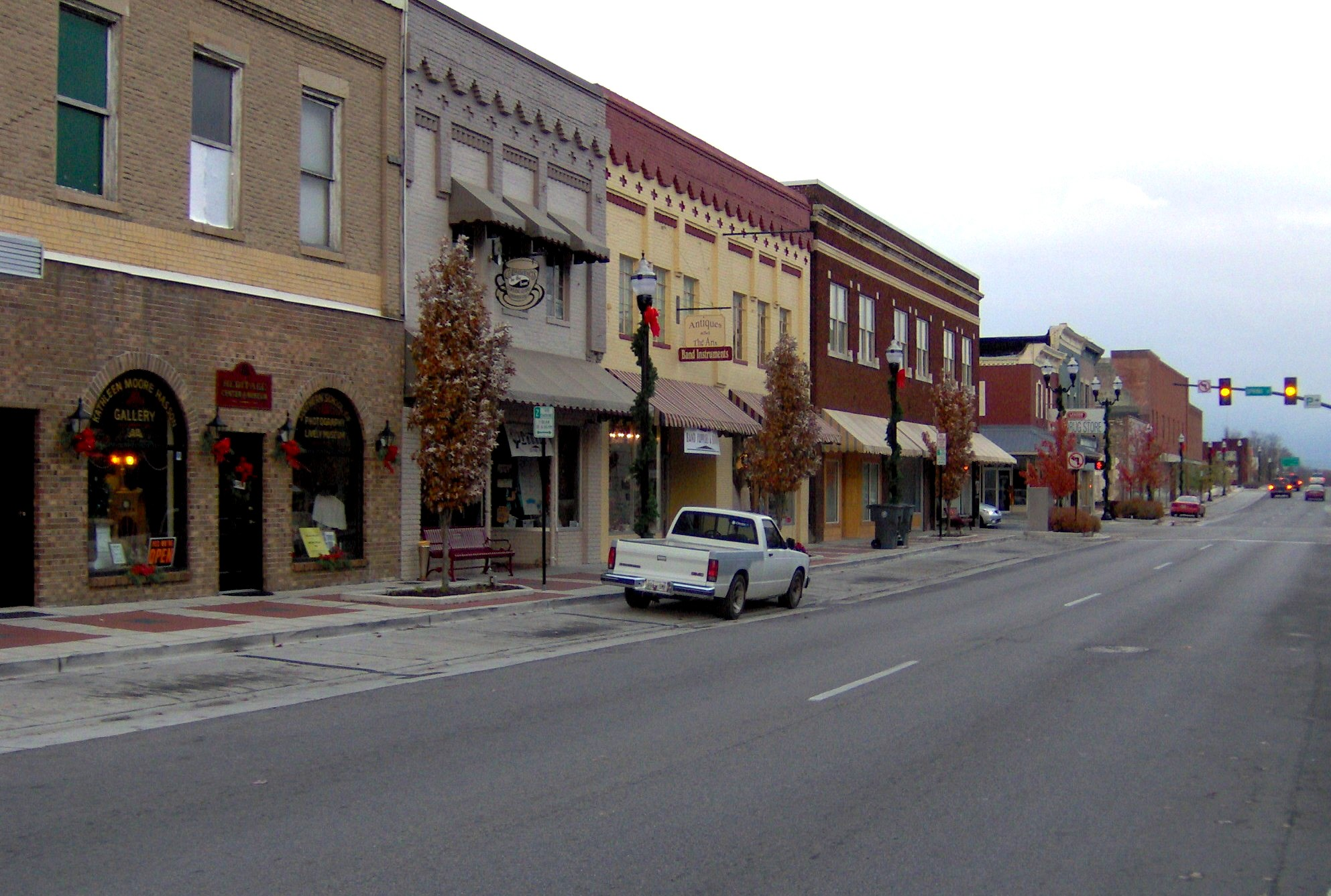 East Main Street in McMinnville, Tennessee, in the southeastern United States.